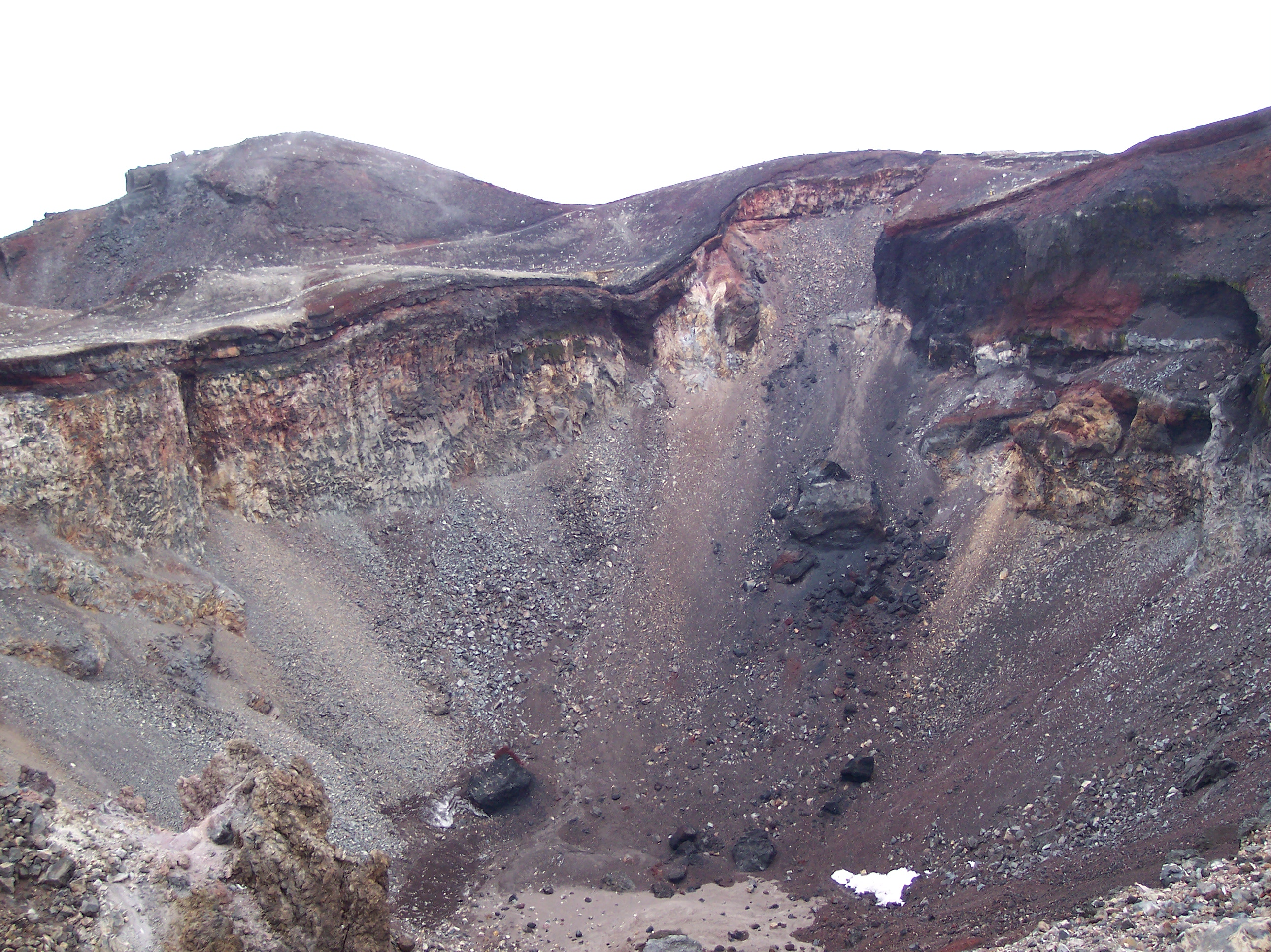 The crater of Mount Fuji100_0677